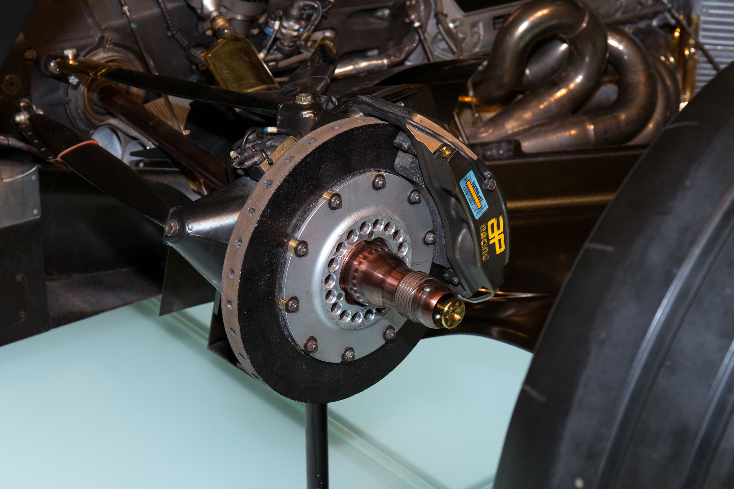 1999 McLaren MP4/14 (exploded view)